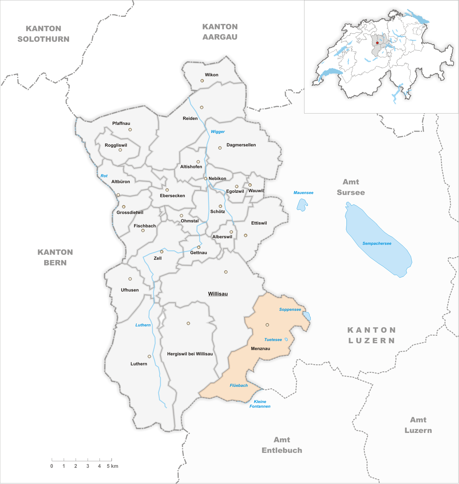 Municipality Menznau